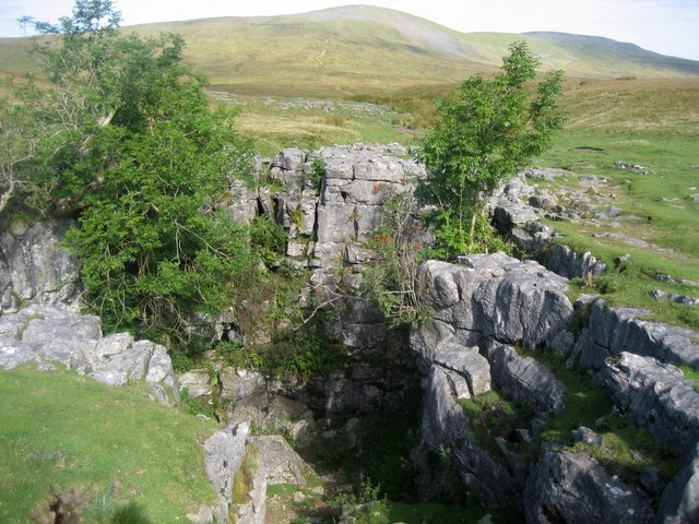 Bar Pot Largely ignored as punters speed onto the delights of Gaping Gill.